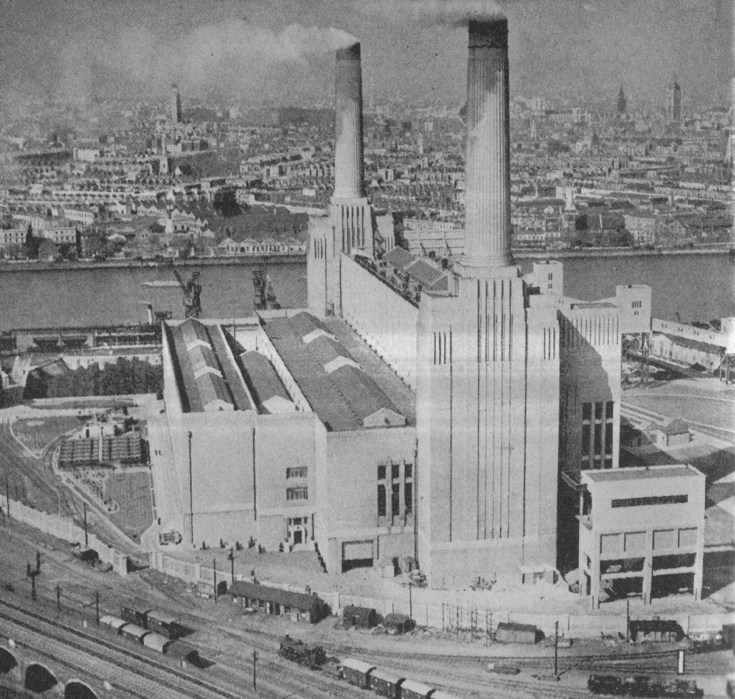 Battersea Power Station, which when completed will have a capacity of about 240,000 kilowatts. The first part was in operation in January 1934. Approximate date of photograph: 1934